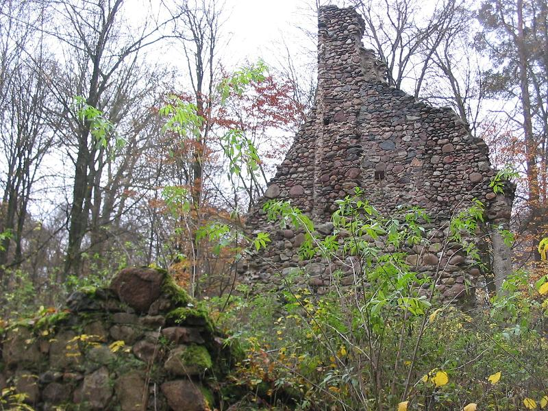 Ruin of the stonechurch in the abandoned village Schleesen, built probably in the first half of the 12th century. The ruin is situated in the north of the municipality Stackelitz in the nature park Fläming. Stackelitz belongs to the district Anhalt-Zerbst, state Saxony-Anhalt, Germany.